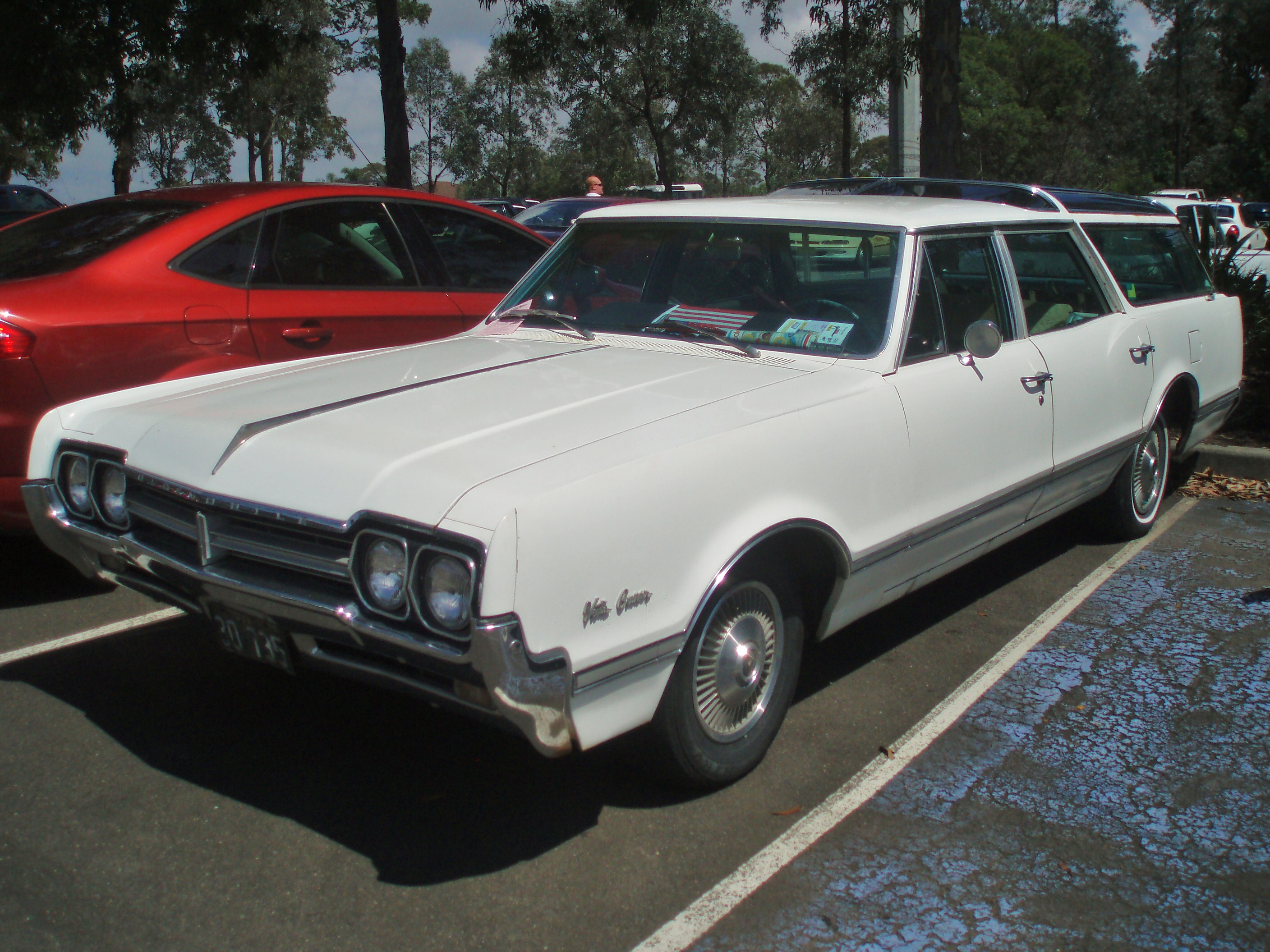 1966 Oldsmobile Vista Cruiser station wagon. Taken in the carpark outside the 2010 New South Wales All Chrysler Day, held at Fairfield Showground, Prairiewood, Sydney.